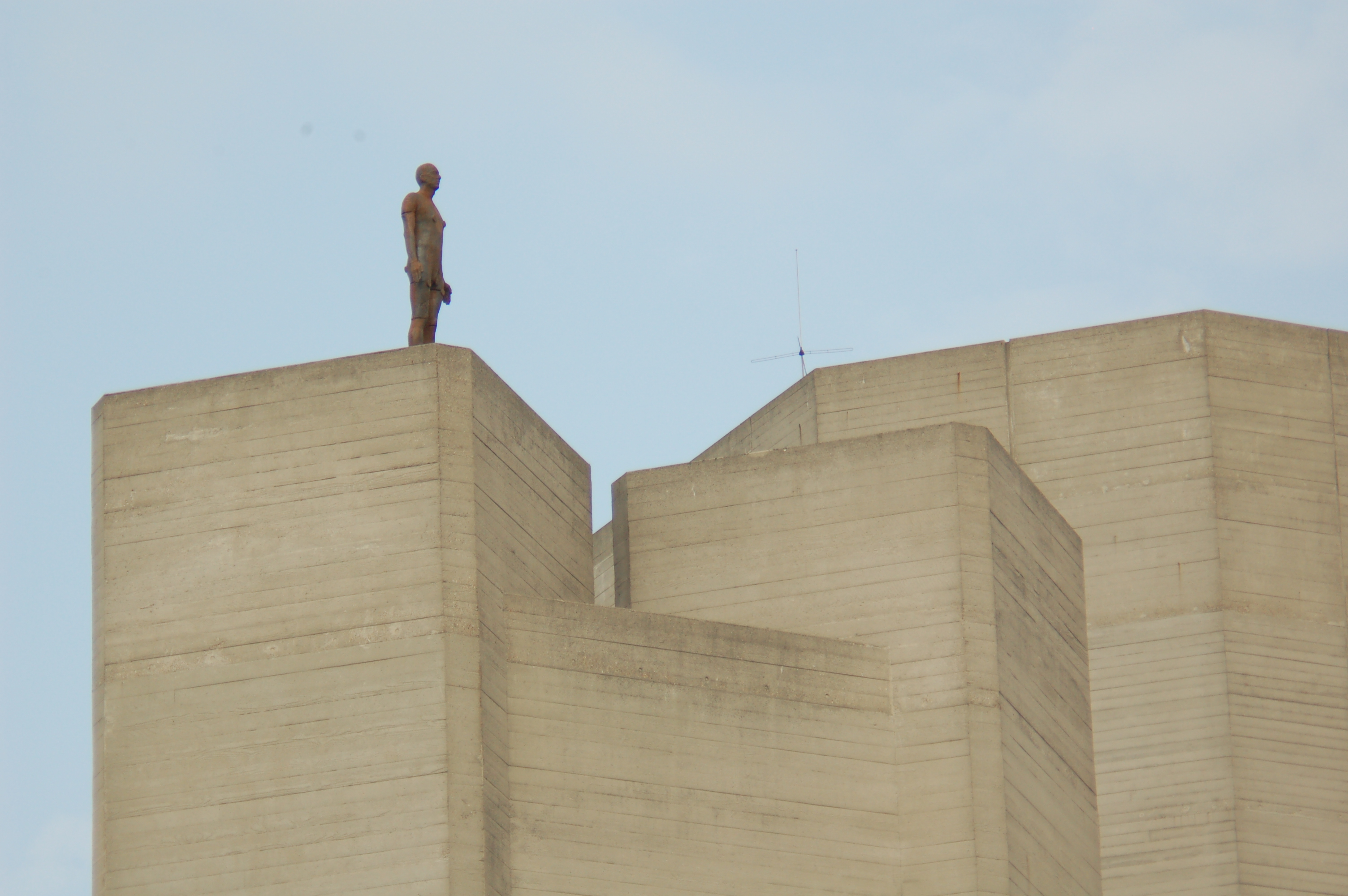 Sculpture on the National Theatre, London.